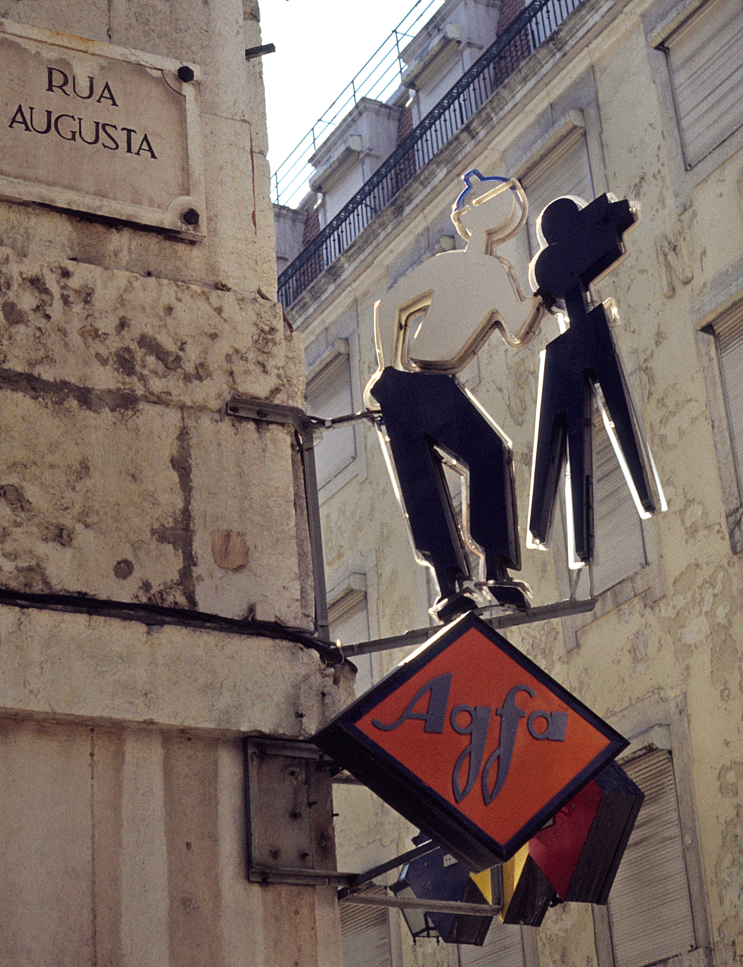 Old neon sign advertising Agfa films, Lisbon, Portugal.